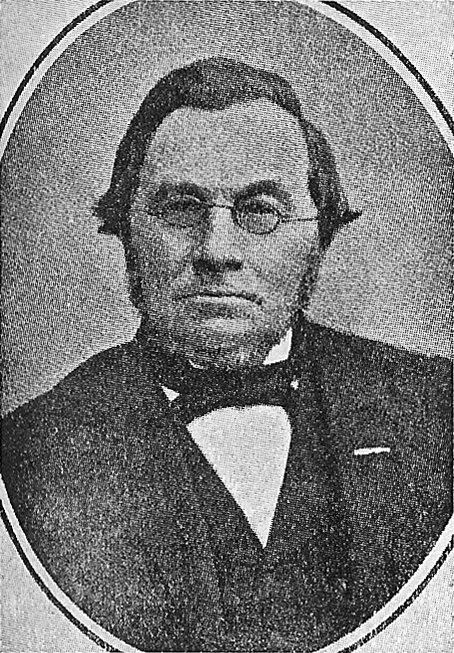 Niels Johannes Fjord (1825-1891)